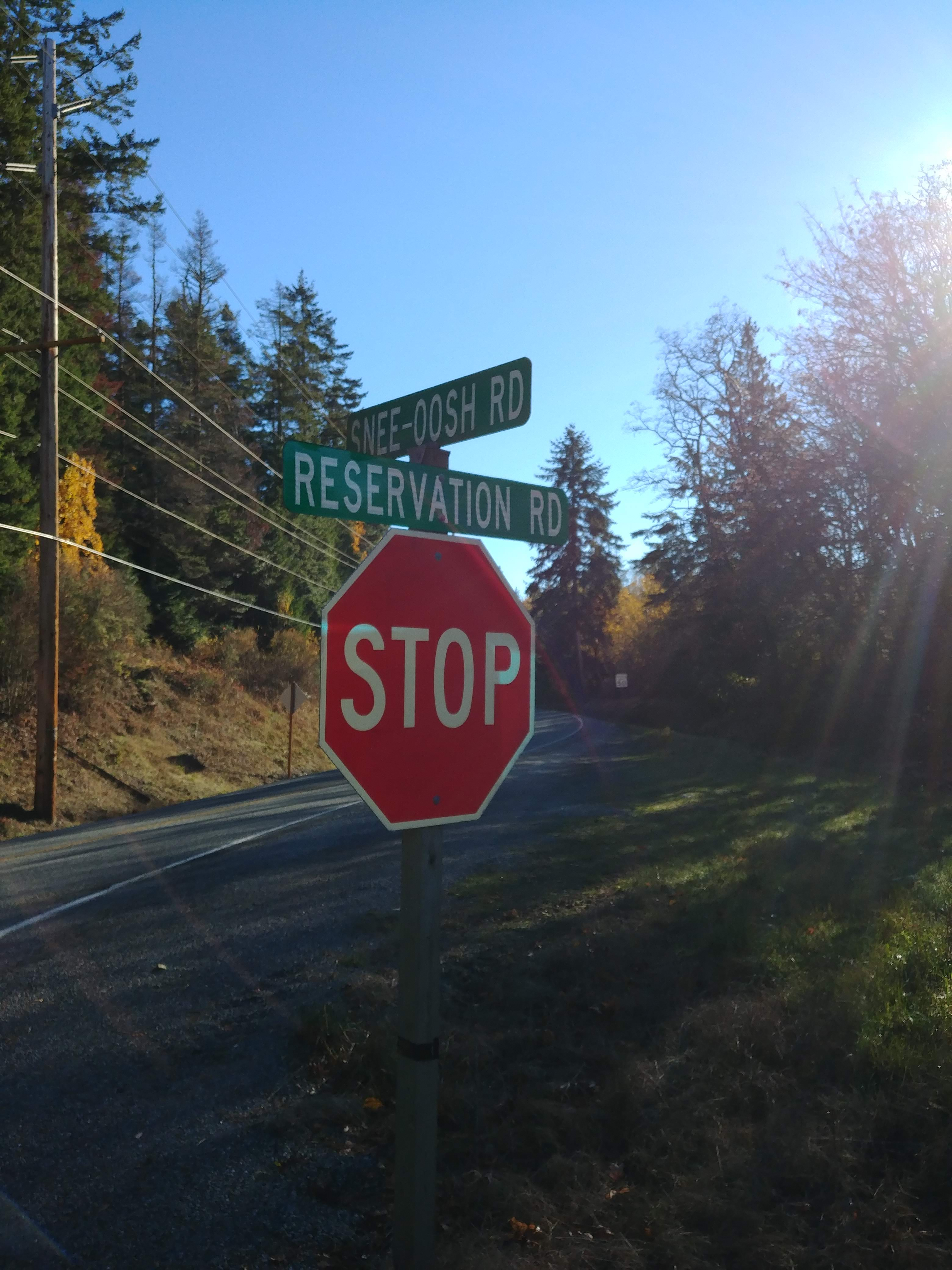 Stop sign at the intersection of Snee-Oosh Road and Reservation Road, Skagit County, Washington on a sunny fall day